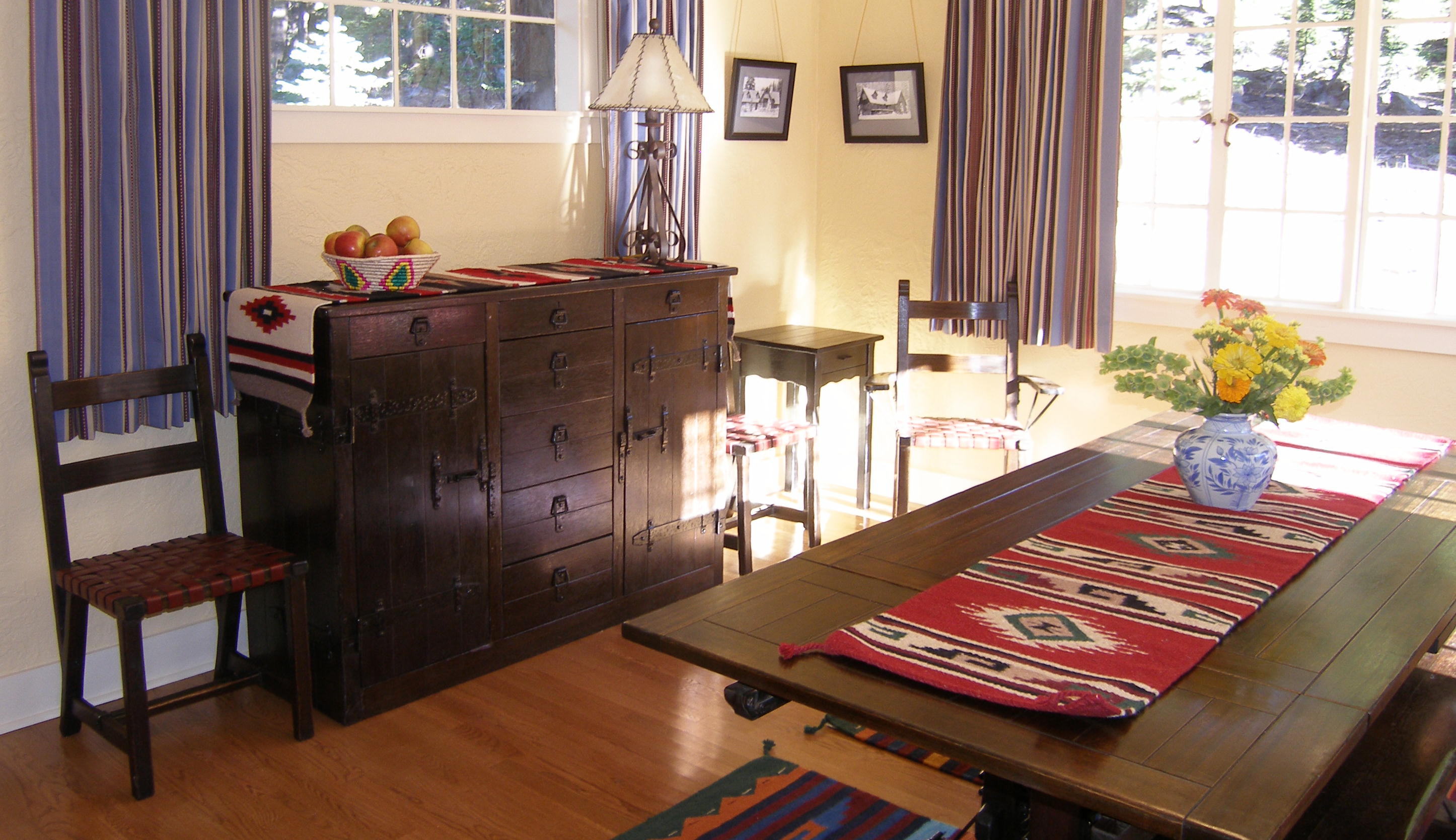 Original Imperial Monterey furniture seen in the dining room of the Superintendent's House, now the Science and Learning Center, at Crater Lake National Park.